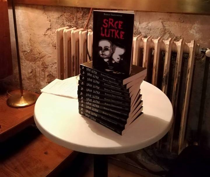 A stack of books, written by Boban Trifunović